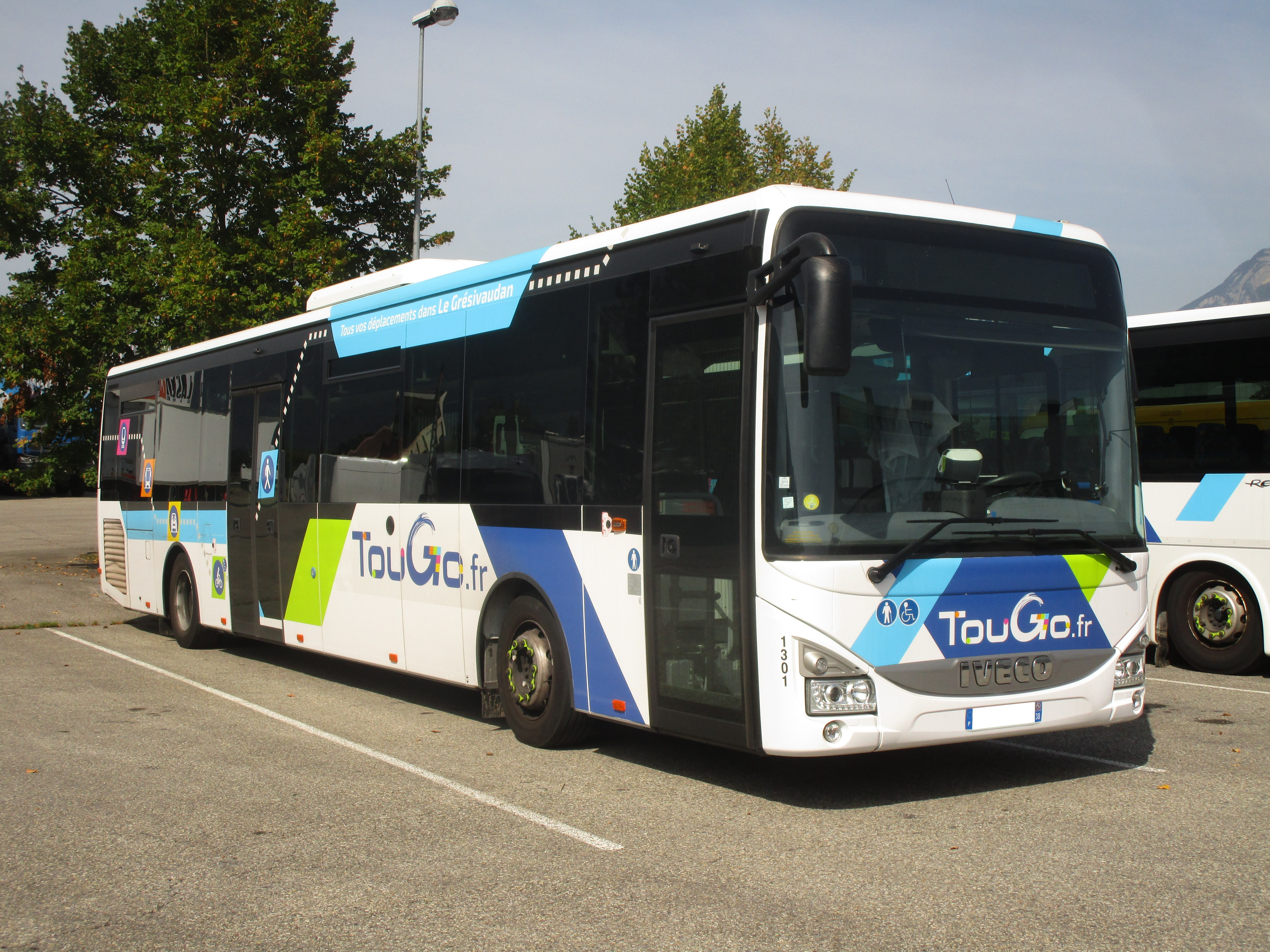 An Iveco Crossway LE (n°1301 of Philibert) in the stable yard of the Garage Vasseur - Renault Trucks (Voglans, France) on August 28, 2017.